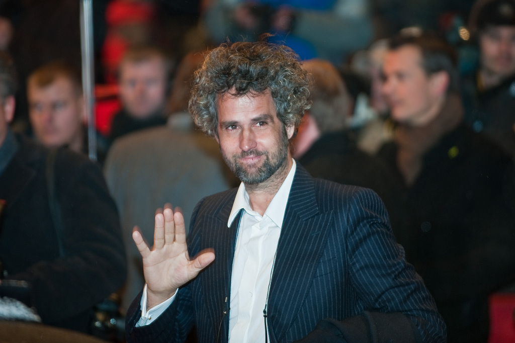 German film, theater und opera director, writer, free artist and last year member of the jury Christoph Schlingensief arriving at the opening of the 60th Berlin International Film Festival.